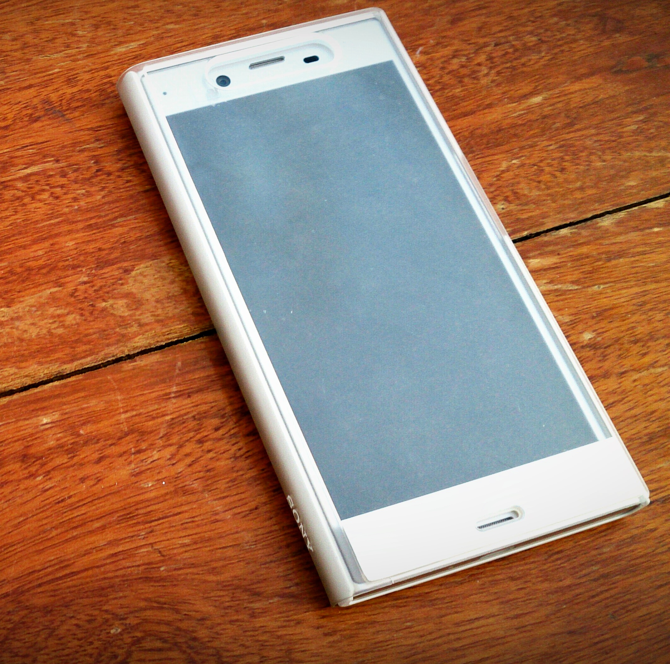 Sony Xperia XZ in Platinum with Style Cover Touch SCTF10, taken at the Sony Mobile Photography Workshop event held at Commune Cafe+Bar, Makati City, Philippines